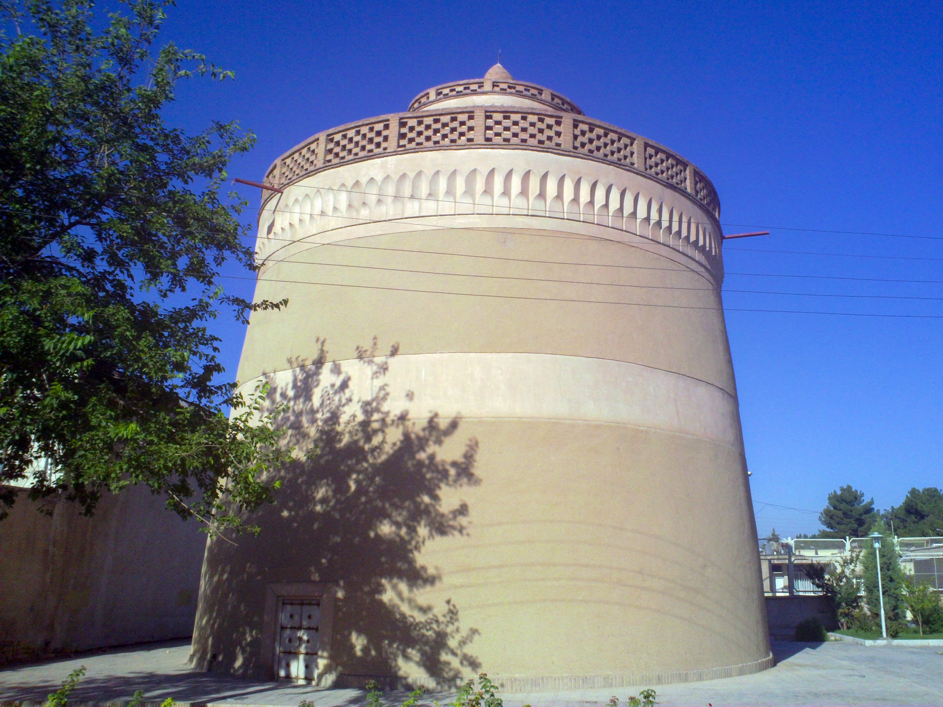 Isfahan historically also rendered in English as Ispahan, Sepahan, Esfahan or Hispahan, is the capital of Isfahan Province in Iran, located about 340 kilometres (211 miles) south of Tehran.